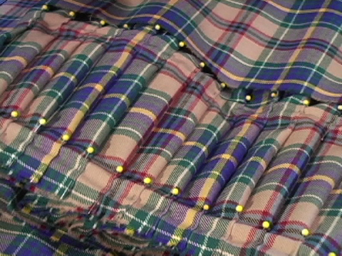 Pleating to the sett. A kilt, with the pleats in the process of being laid out and pinned prior to stitching. The pleats are here pleated to the sett, a style of pleating which will result in the pattern of the sett being repeated across the back of the kilt. Oregon State tartan. Photo is copyright © 2006 by James F. Perry.